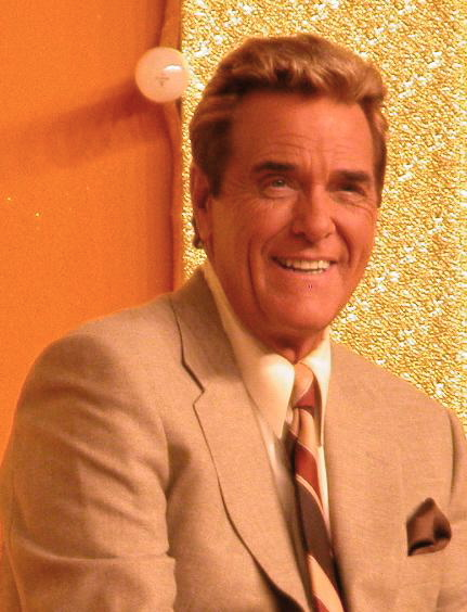 Chuck Woolery